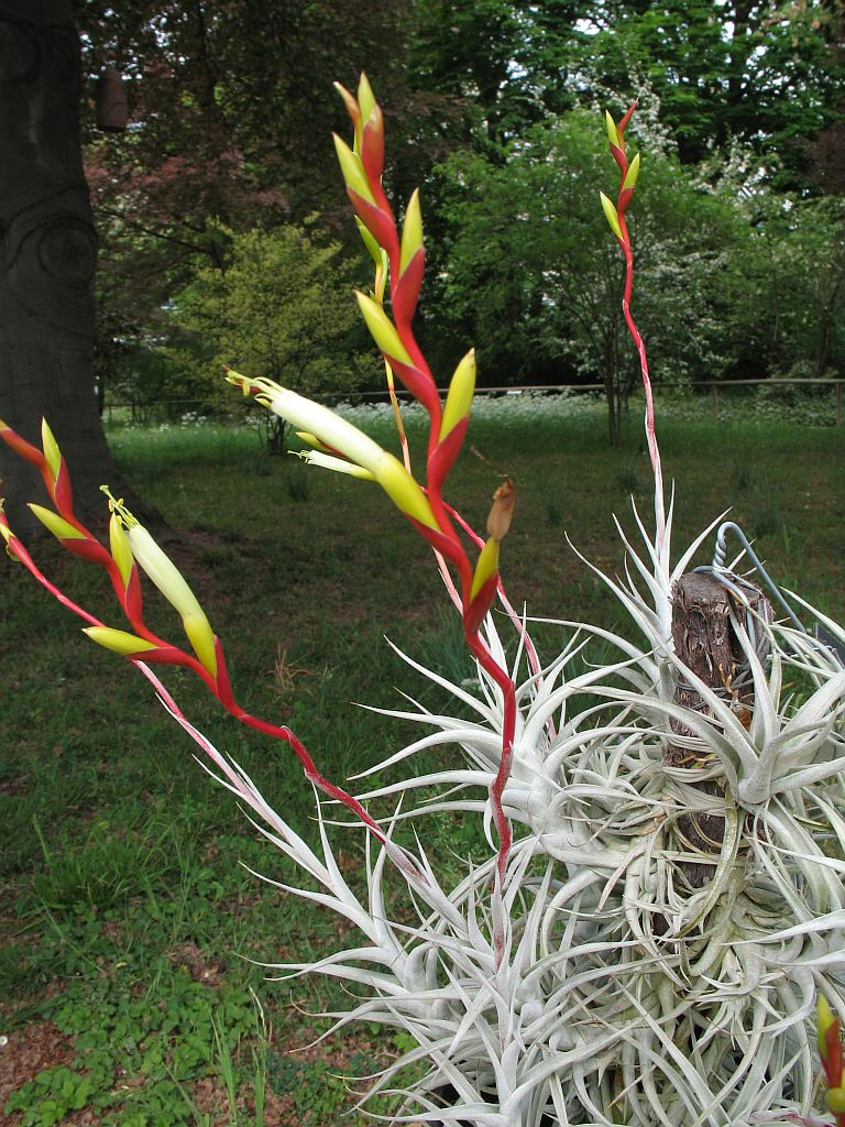 Tillandsia albida in cultivation at the Botanical Garden of Heidelberg, Germany.